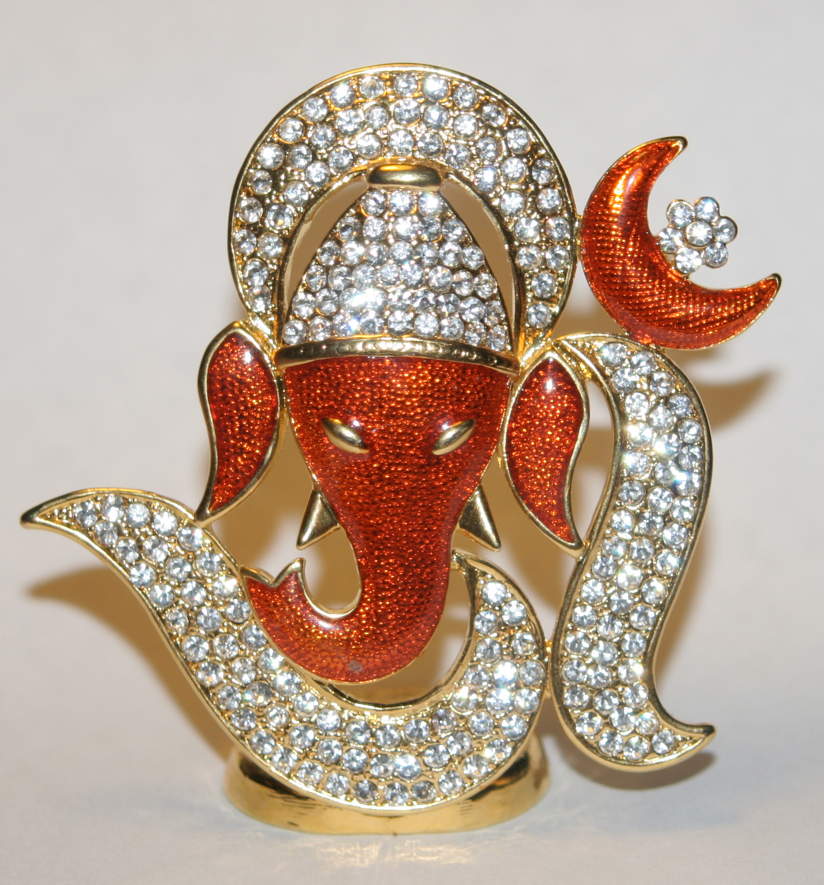 A statue of Ganesha.This statue is face of elephant.It has beautifully decorated in a type of stones.